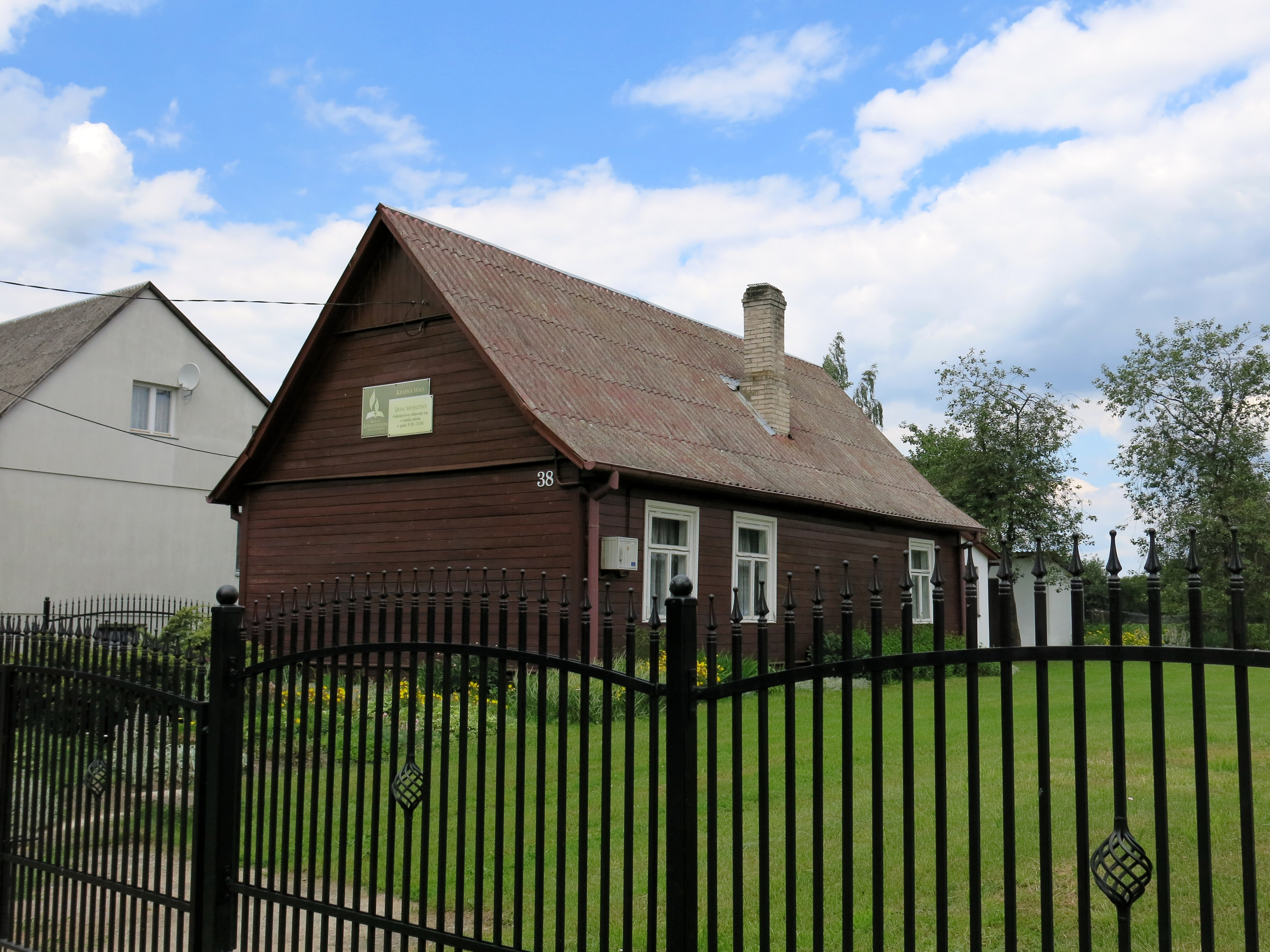 Seventh-Day Adventist church in Krasna Wieś, gmina Boćki, podlaskie